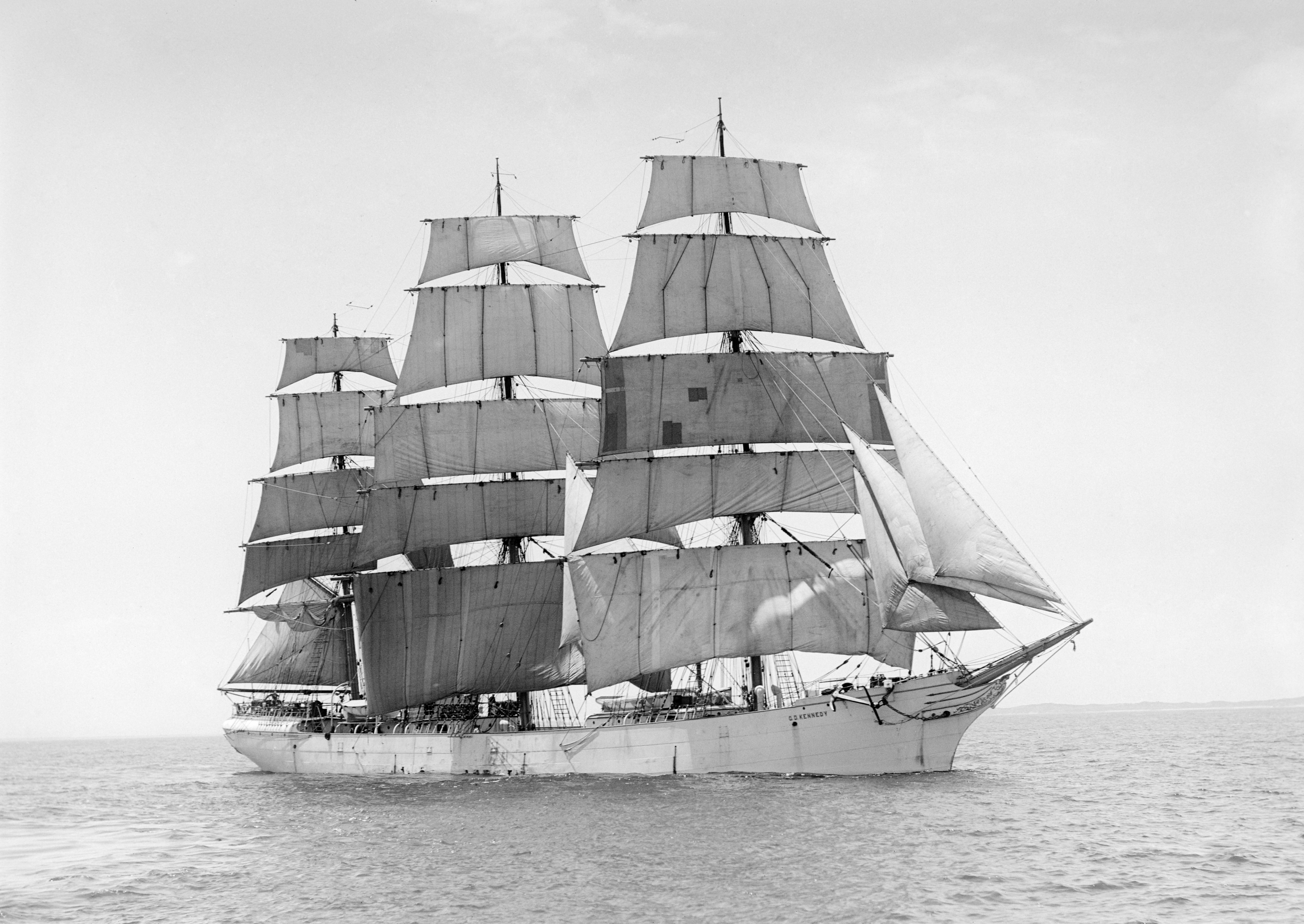 G.D. Kennedy, later Af Chapman